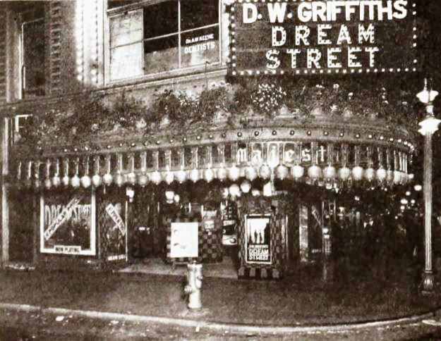 The Majestic Theater in Portland, Oregon, showing the American drama film Dream Street (1921), on page 36 of the August 27, 1921 Exhibitors Herald.